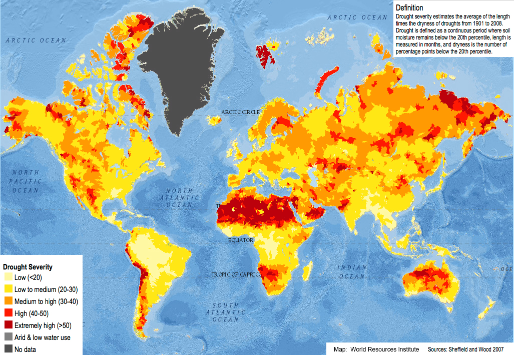 Average length x the dryness of droughts from 1901 to 2008. Source: World Resources Institute